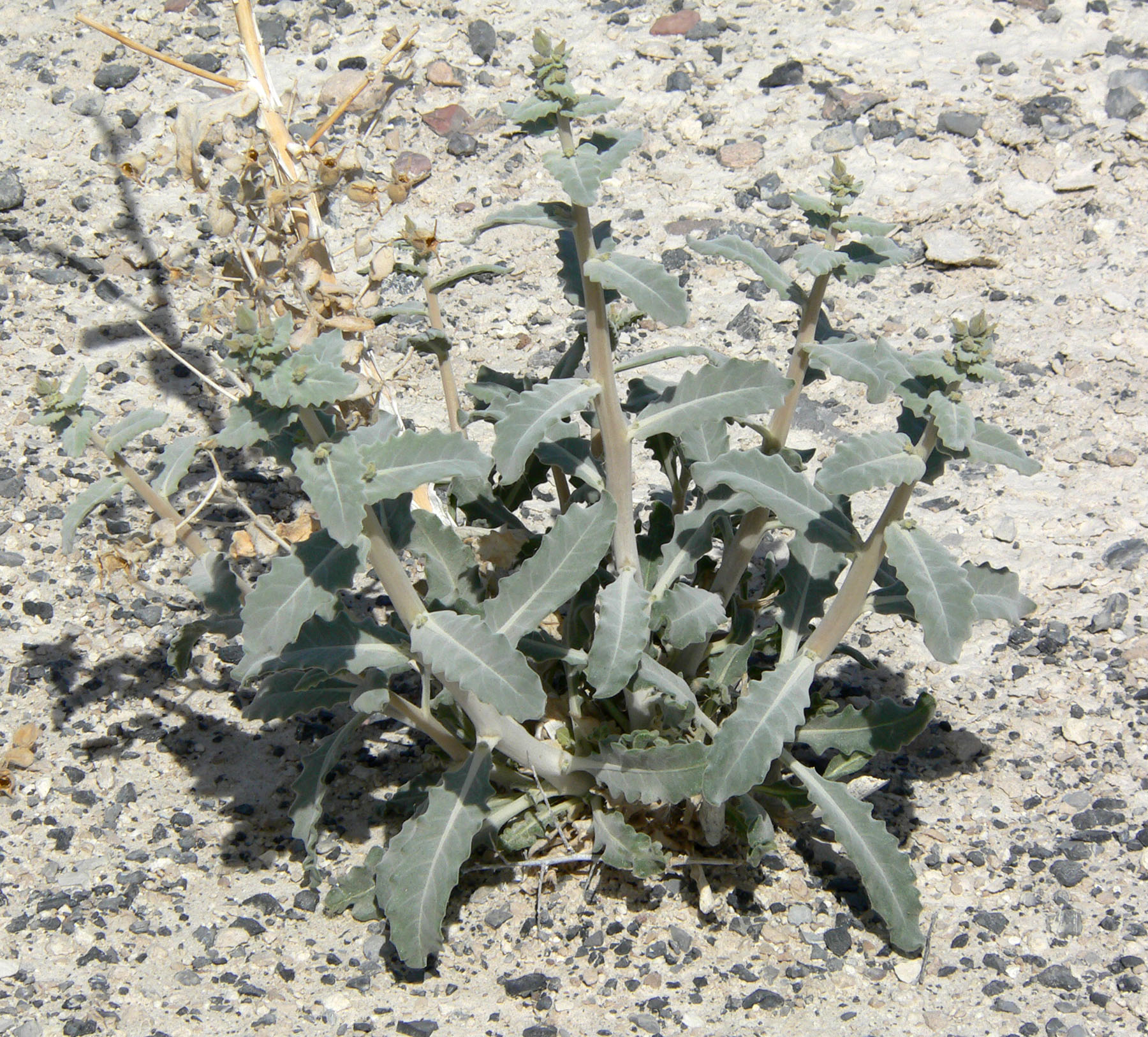 Mentzelia leucophylla off Ash Meadows Road, Ash Meadows, southern Nevada